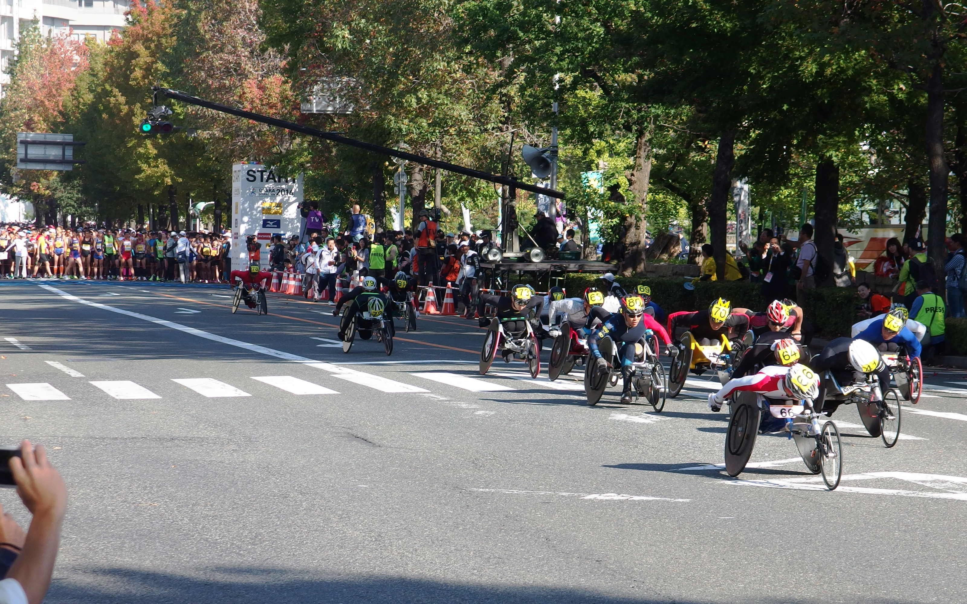 Osaka_Marathon, Osaka, Osaka Prefecture, Japan